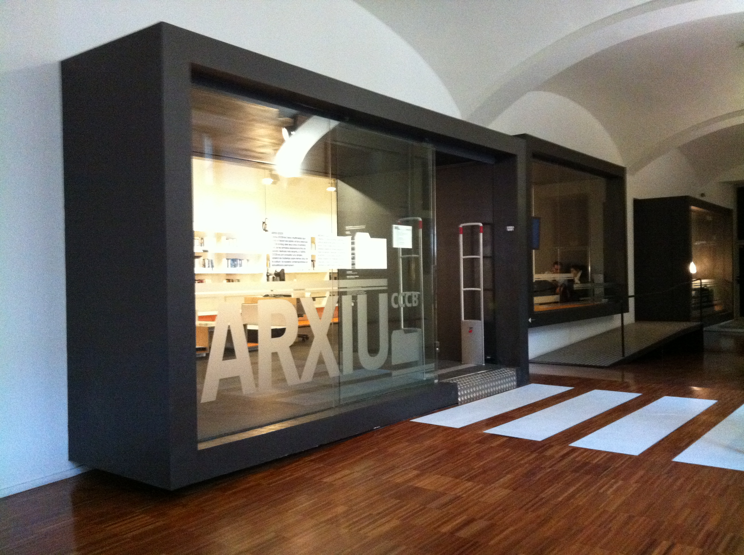 Archive from the Center of Contemporary Culture of Barcelona